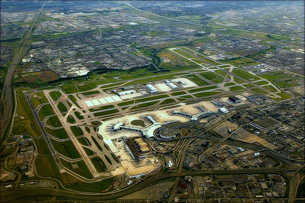 Aerial view of Toronto Lester B. Pearson International Airport - colour-corrected from the previous version